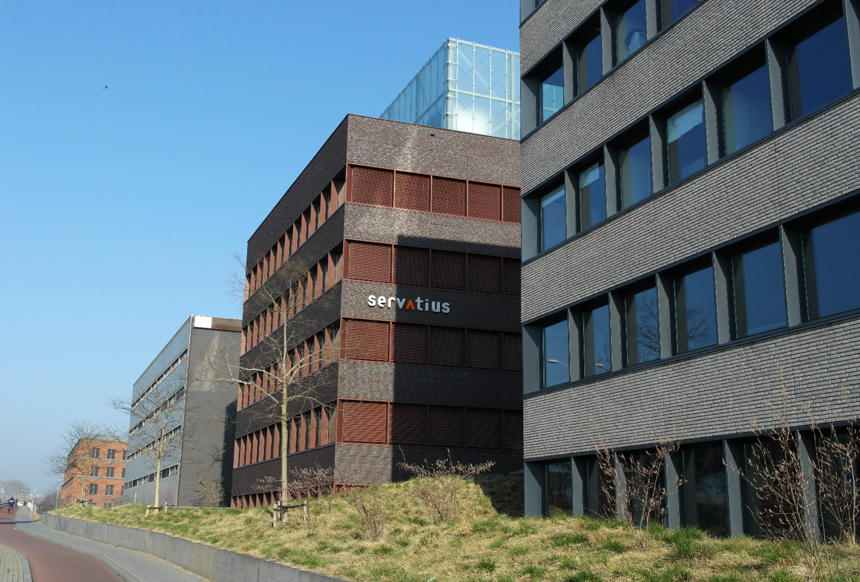 Maastricht, the Netherlands. View of office buildings along Kennedysingel/Wim Duisenbergplantsoen in Akerpoort.